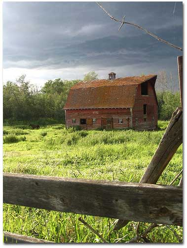 An example of the rural countryside outside Barrhead, Alberta, Canada.